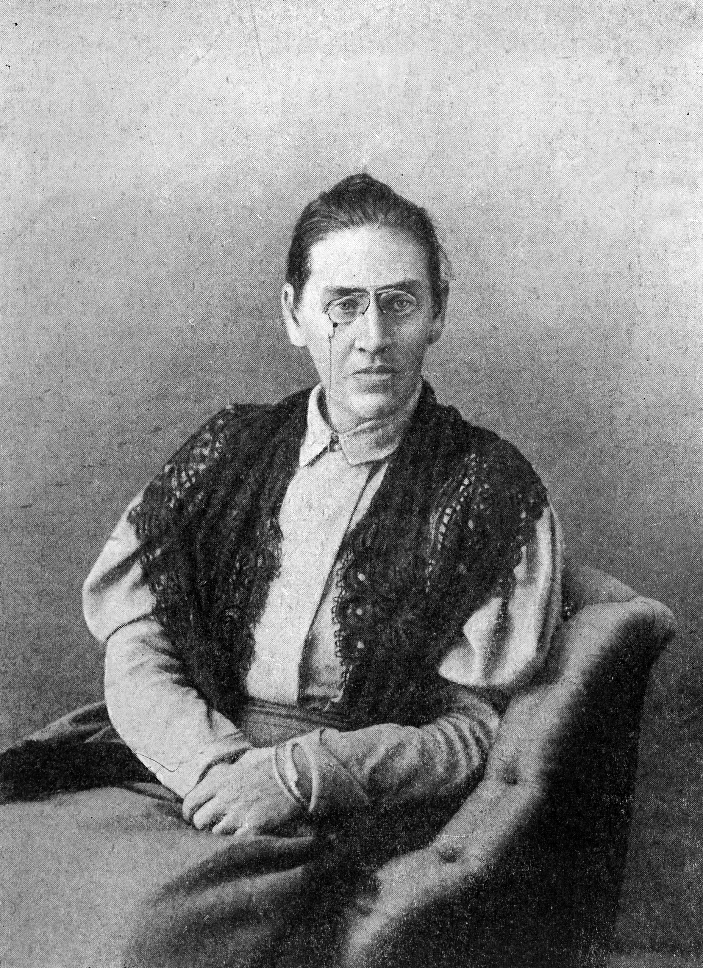 Photo of Ekaterina Fedorovna Junge.